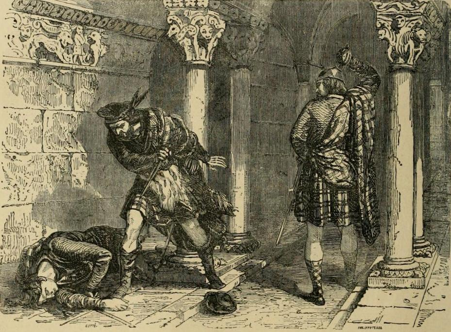 John Comyn is killed by Robert Bruce and Roger de Kirkpatrick before the high altar of the Greyfriars Church in Dumfries, 10 February 1306.